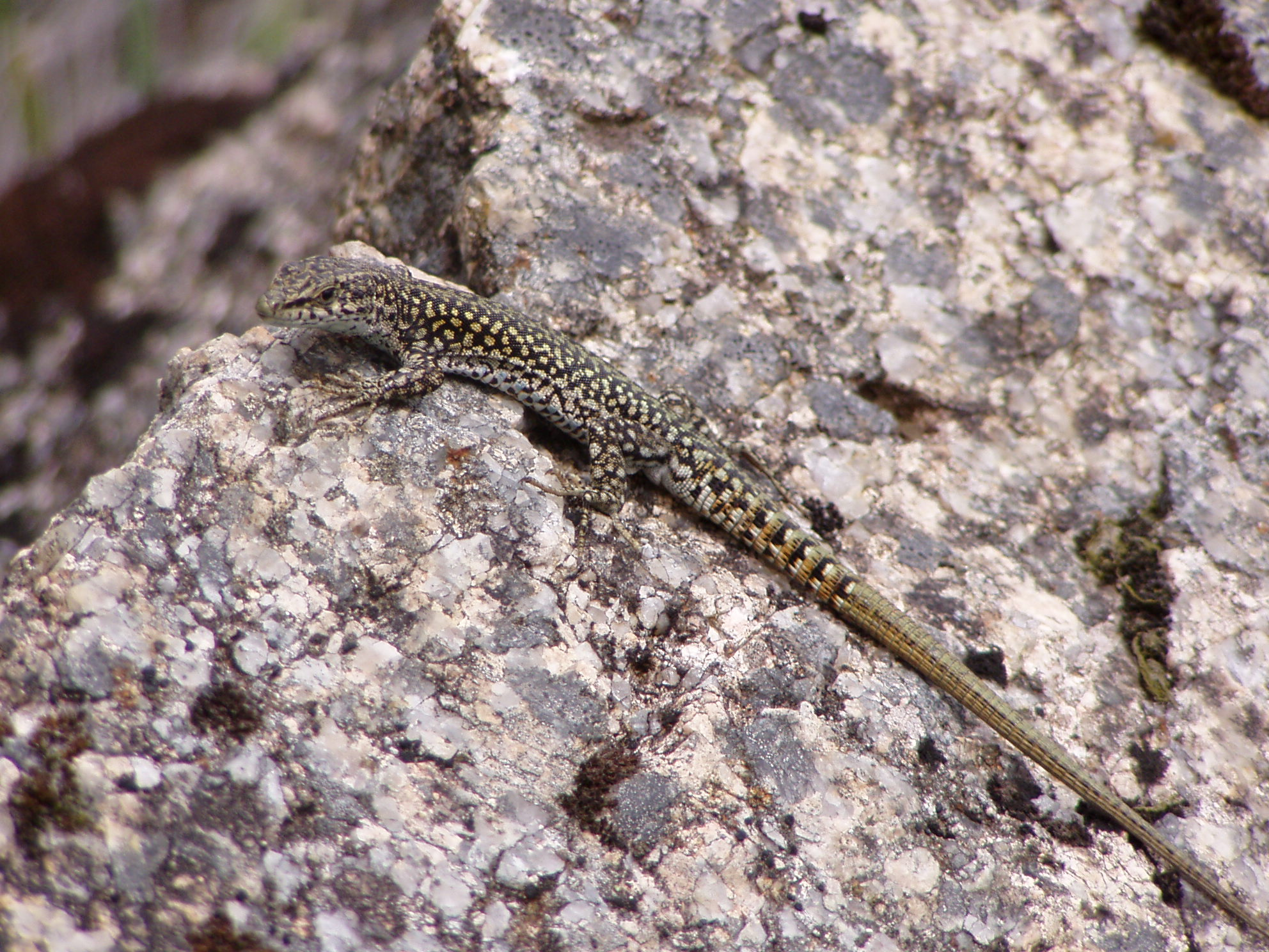 Bocage's Wall Lizard